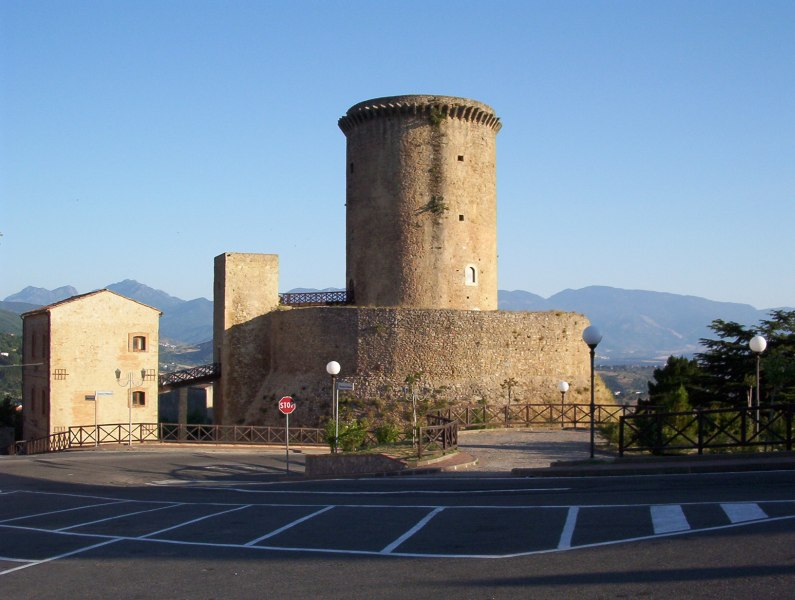 Norman Tower (XI) in San Marco